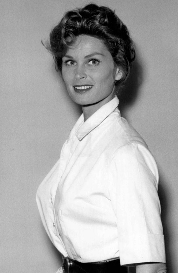 Photo of actress Irish McCalla.